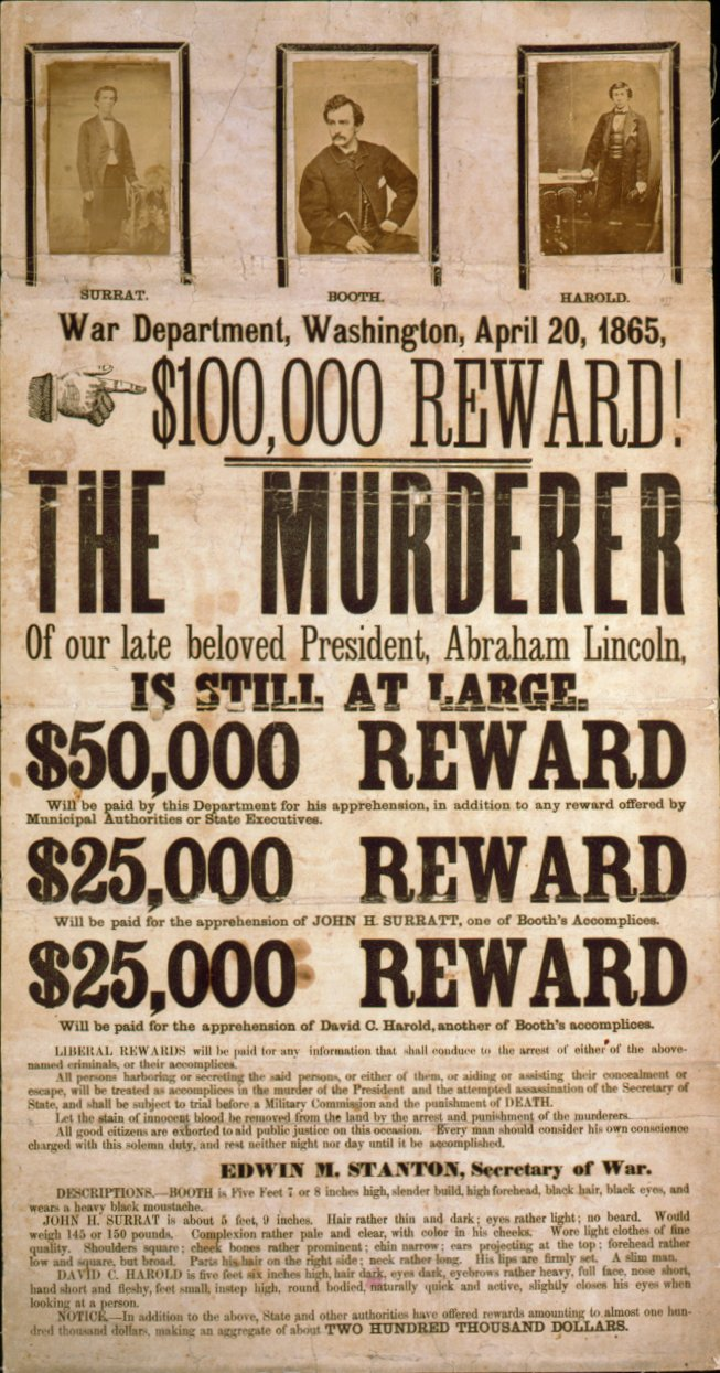 Broadside advertising reward for capture of Lincoln assassination conspirators, illustrated with photographic prints of John H. Surratt, John Wilkes Booth, and David E. Herold.